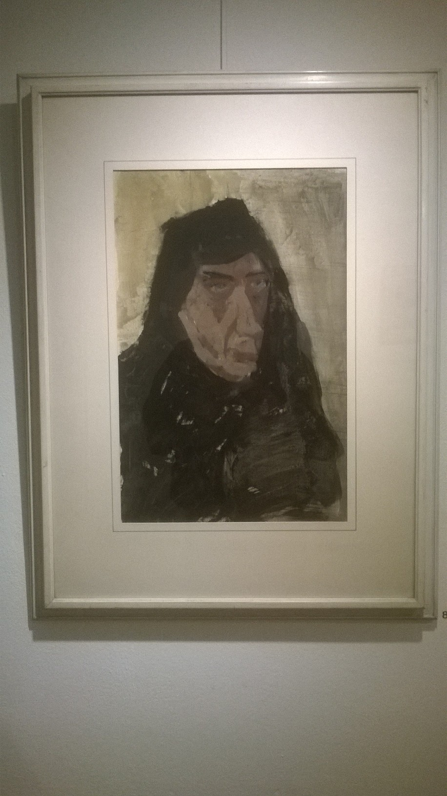 In Museum Maassluis